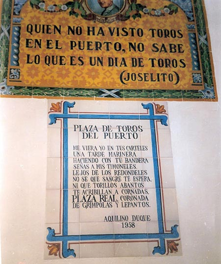 Azulejo en la plaza de toros de El Puerto de Santa María